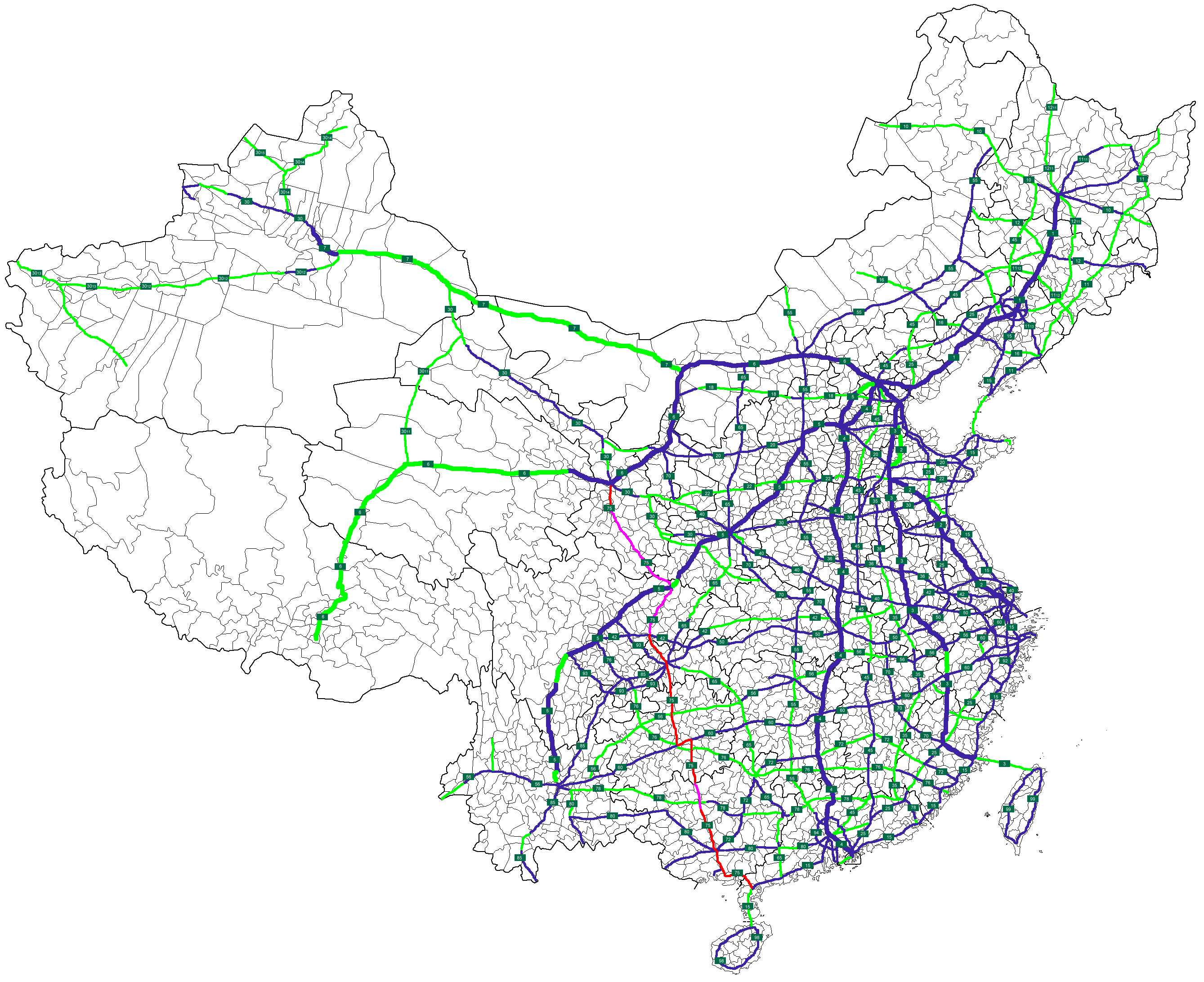 Source file(Map of NTHS Expressways of China.png) was uploaded ASDFGH at en.wikipedia. Later version(s) were uploaded by Nima Farid at en.wikipedia. Modification for NTHS Expressway G75 is my own work.